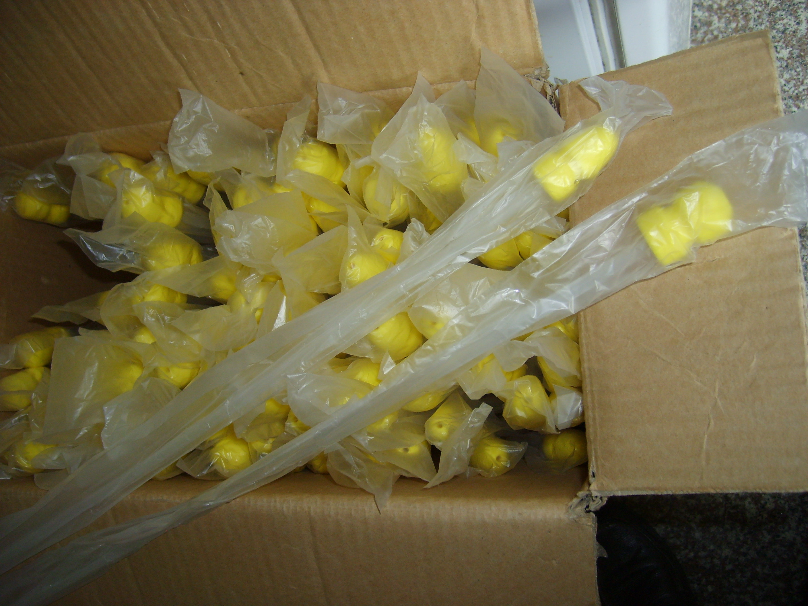 AI catheter for swine insemination